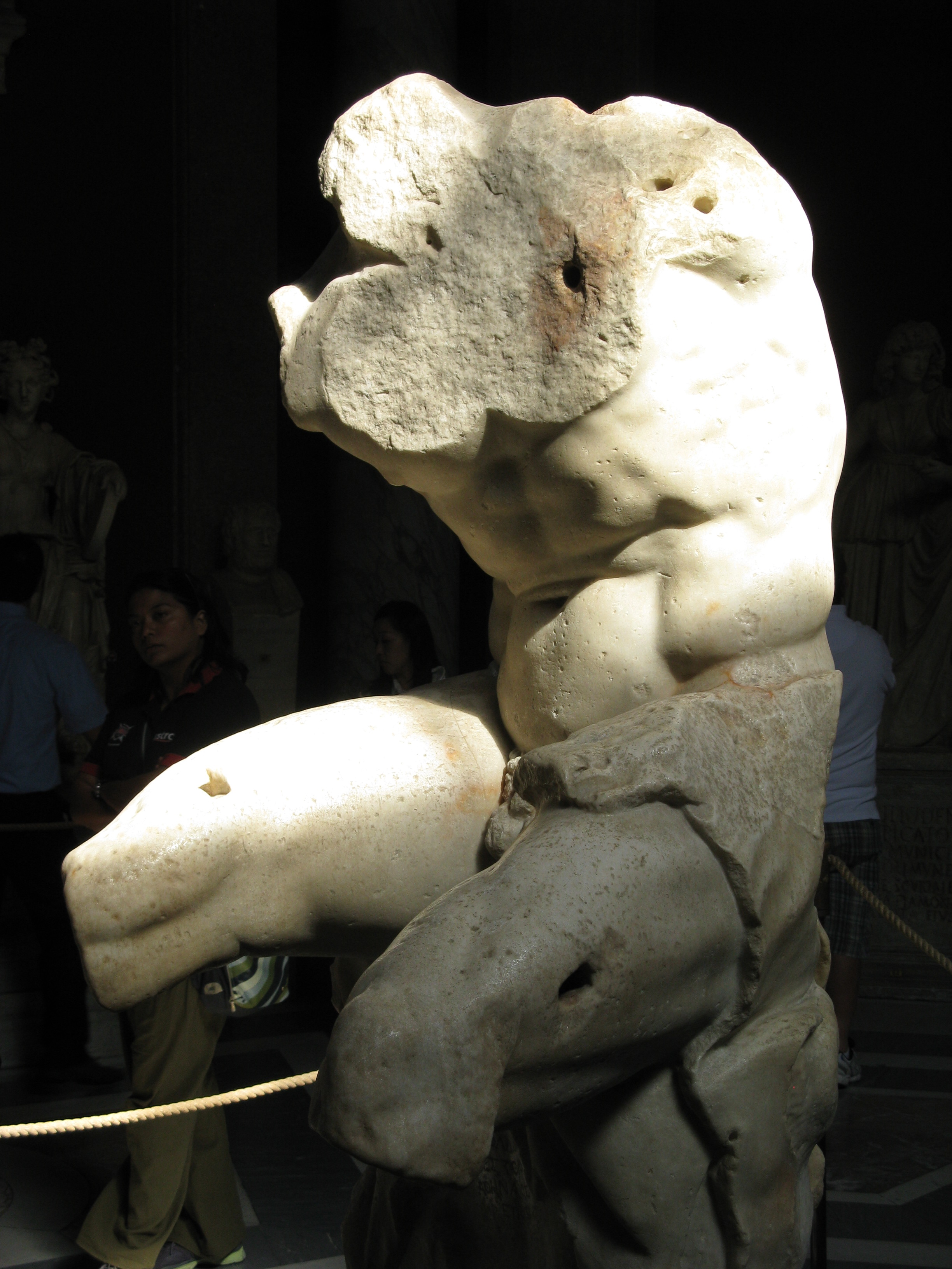 The "Torso del Belvedere" is a fragment (the torso) of a neo-attic artwork, dating from the 1st century CE. The inscription on the pedestal reads "made by Apollonios, son of Nestor, Athenian". It is on display in the Museo Pio-Clementino (Inv. 1192), Vatican Museums, Vatican City.